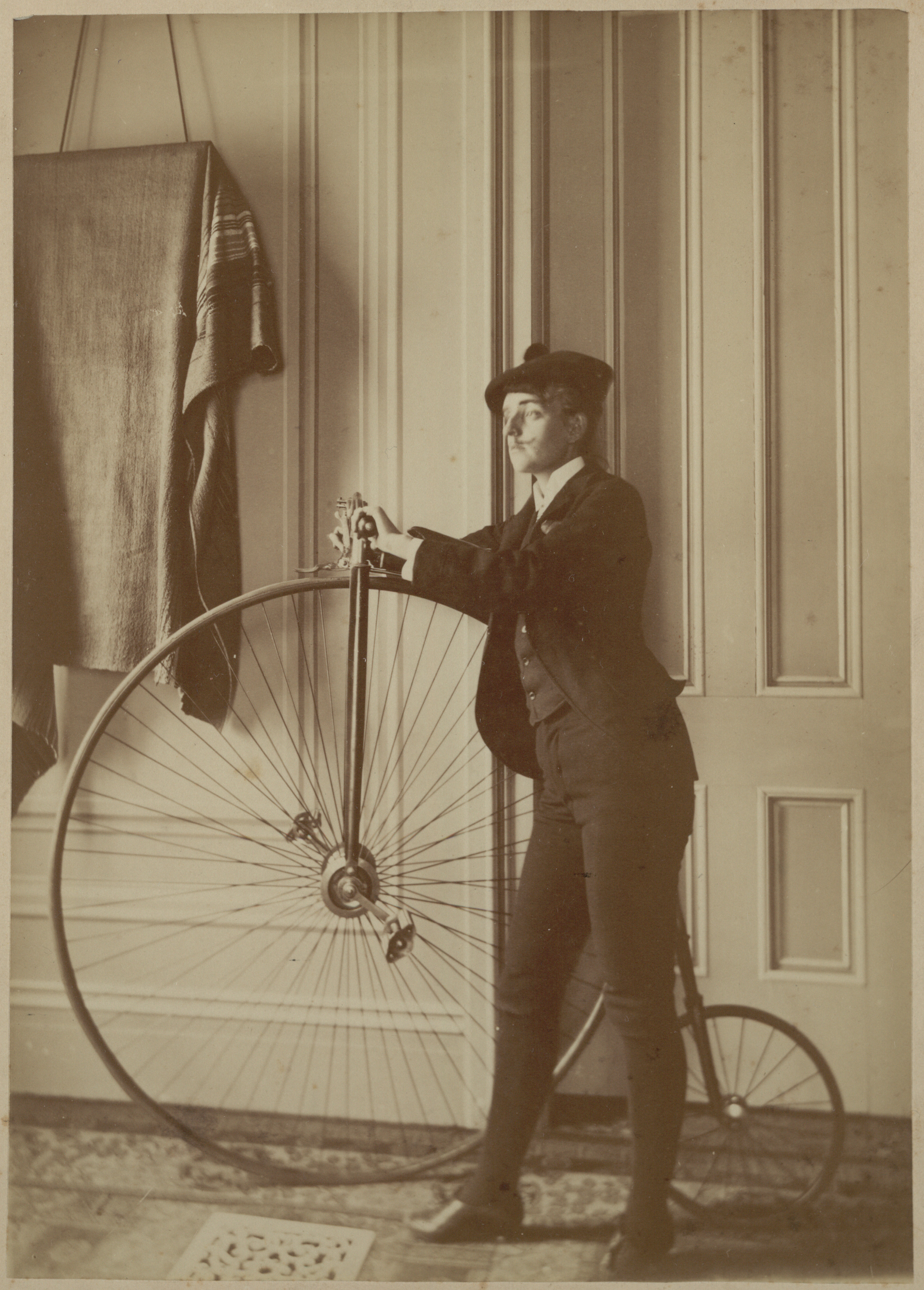 Self-portrait by the American photographer Frances Benjamin Johnston. Johnston has dressed herself as a man while wearing a false mustache and holding a large bicycle.